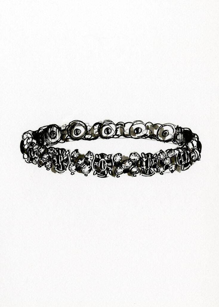 The description of the concept in this drawing is: Ornamental bands or circlets worn on the lower arm. Use "armlets" for similar articles worn on the upper arm. (AAT)